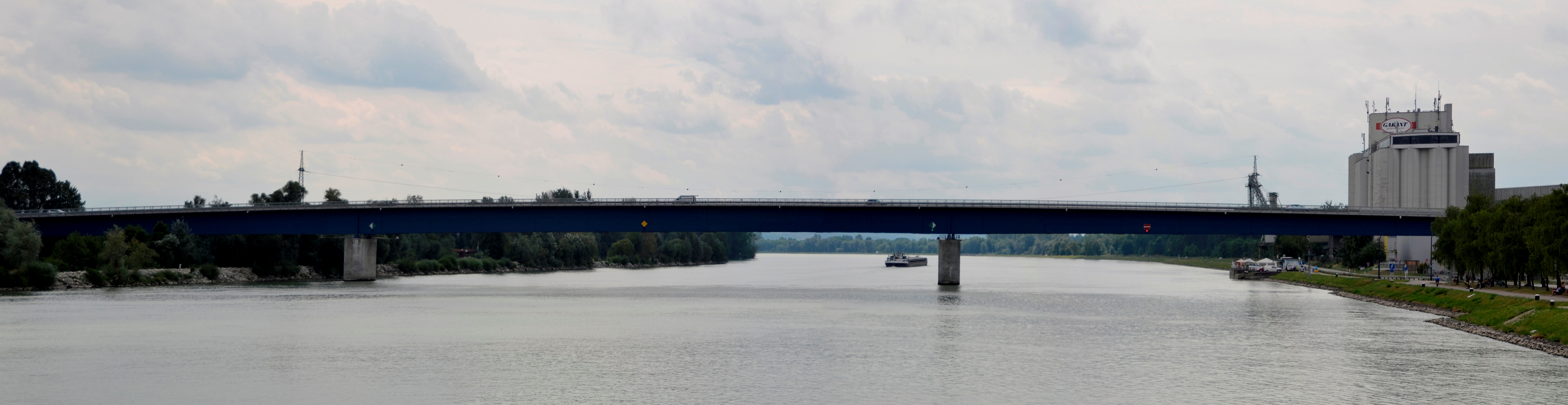 The bridge over the Danube in Aschach an der Donau in Upper Austria.